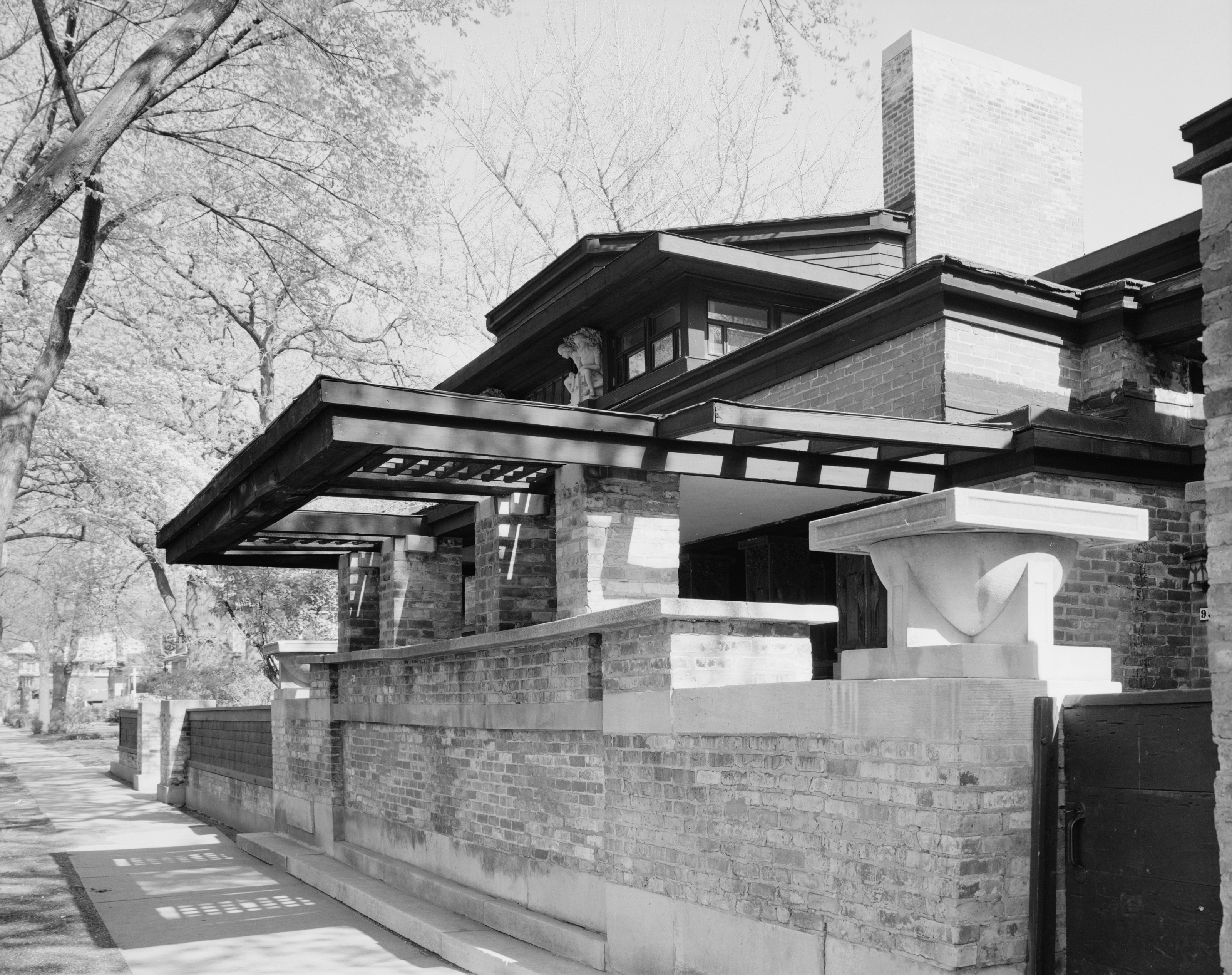 Frank Lloyd Wright home in Oak Park, Illinois. Entrance to studio, looking southeast.